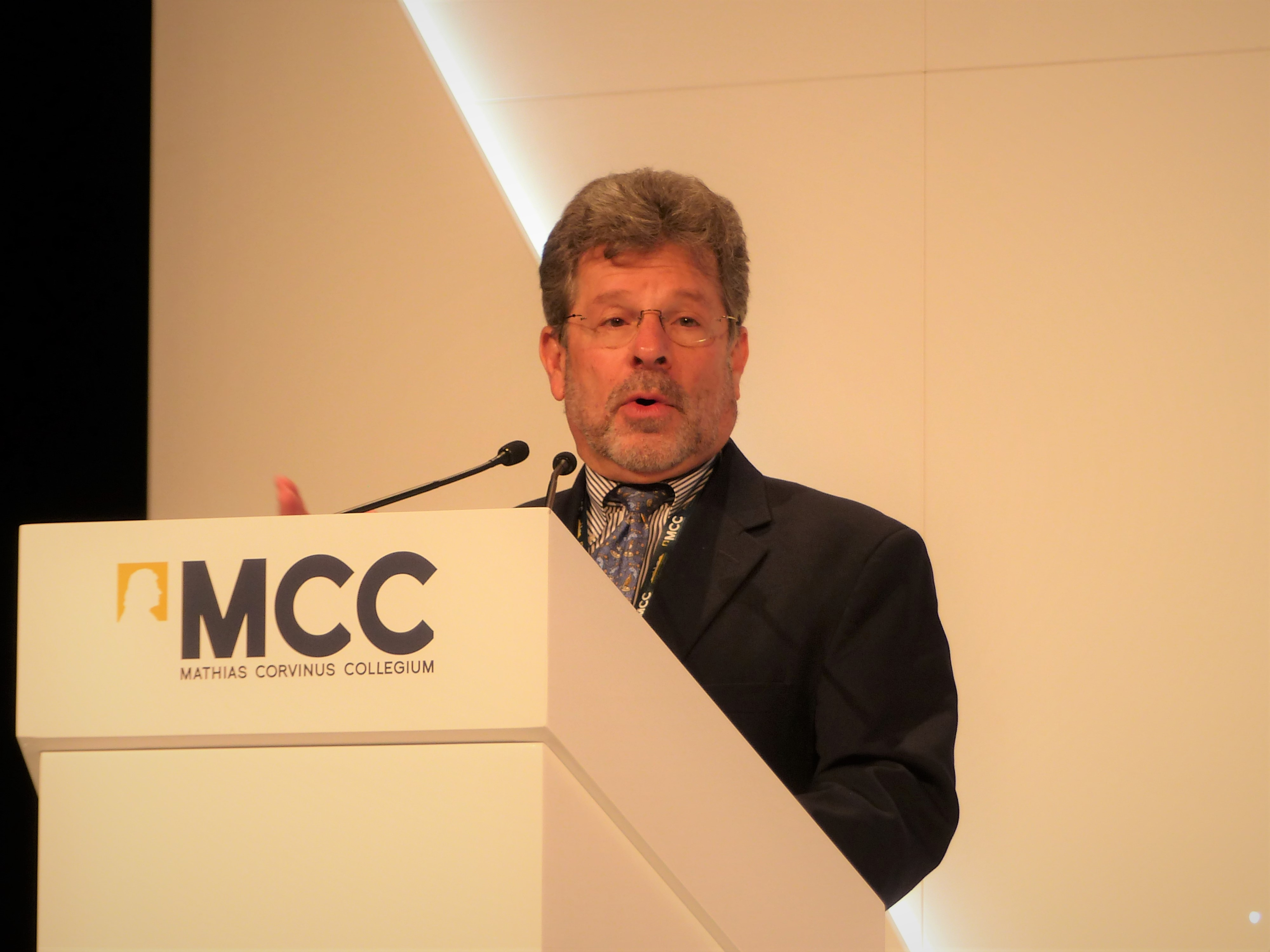 Clifford D. May. MCC Budapest Summit on Migration. The Biggest Challenge of our Time? On the 24th of March, 2019. Várkert Bazár, Central Europe